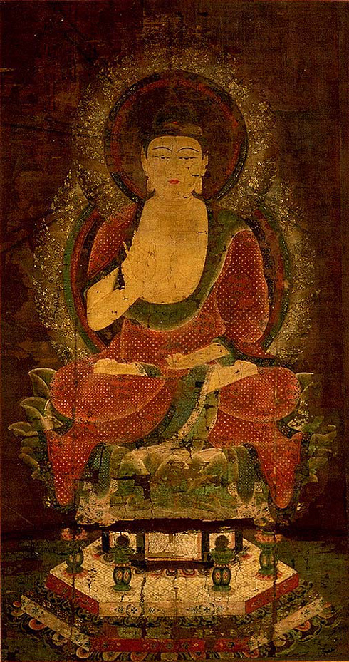 Shaka nyorai (Sakya Tathāgata) (絹本著色釈迦如来像, kenpon chakushoku shaka nyorai zō) or Red Shakyamuni (赤釈迦, aka shaka) from the 12th century. Hanging scroll, 159.4 cm x 85.5 cm. Gold and color on silk. Located at Jingo-ji, Kyoto.